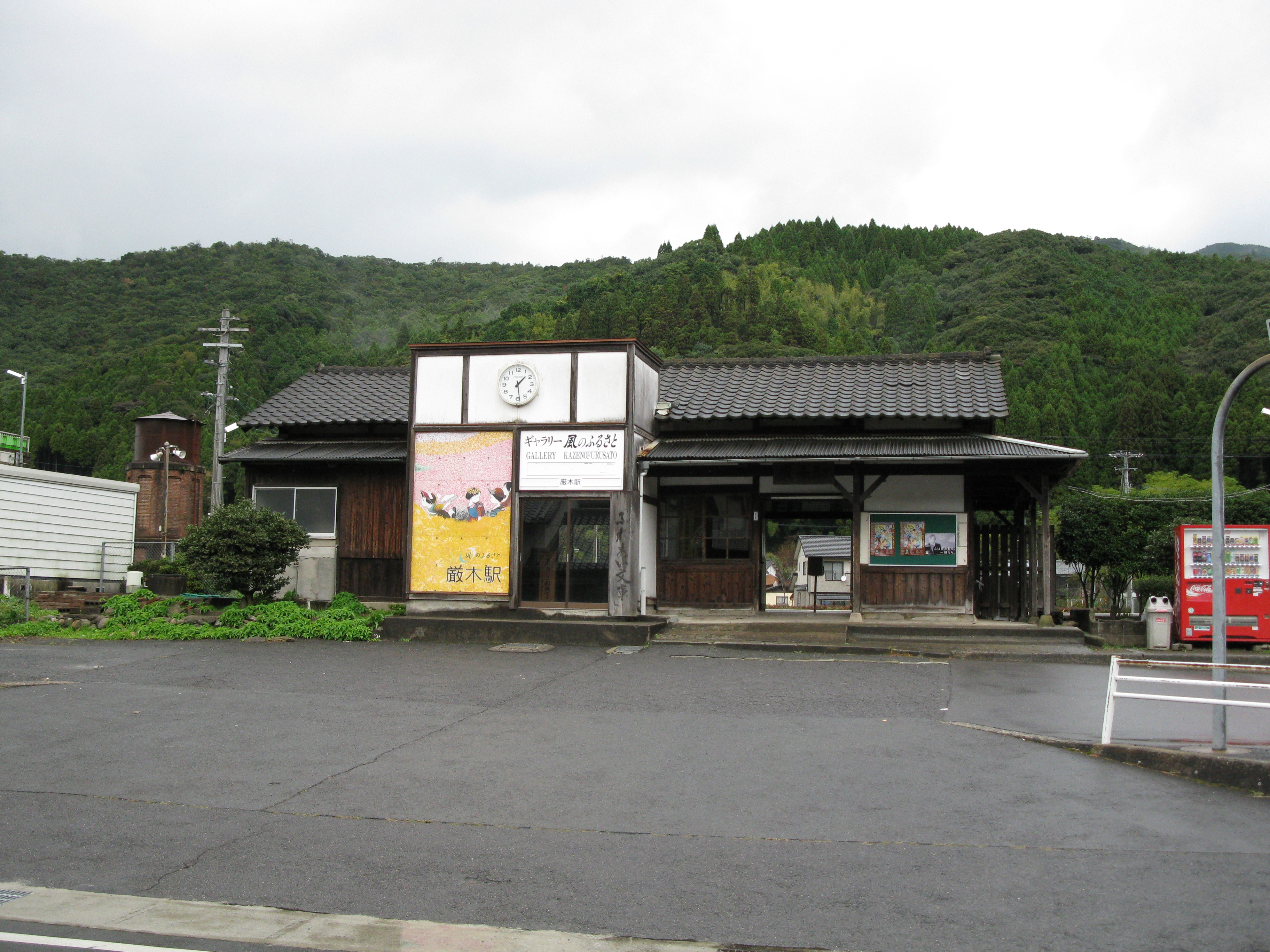 Kyūragi Station building (Kyushu Railway Karatsu Line)